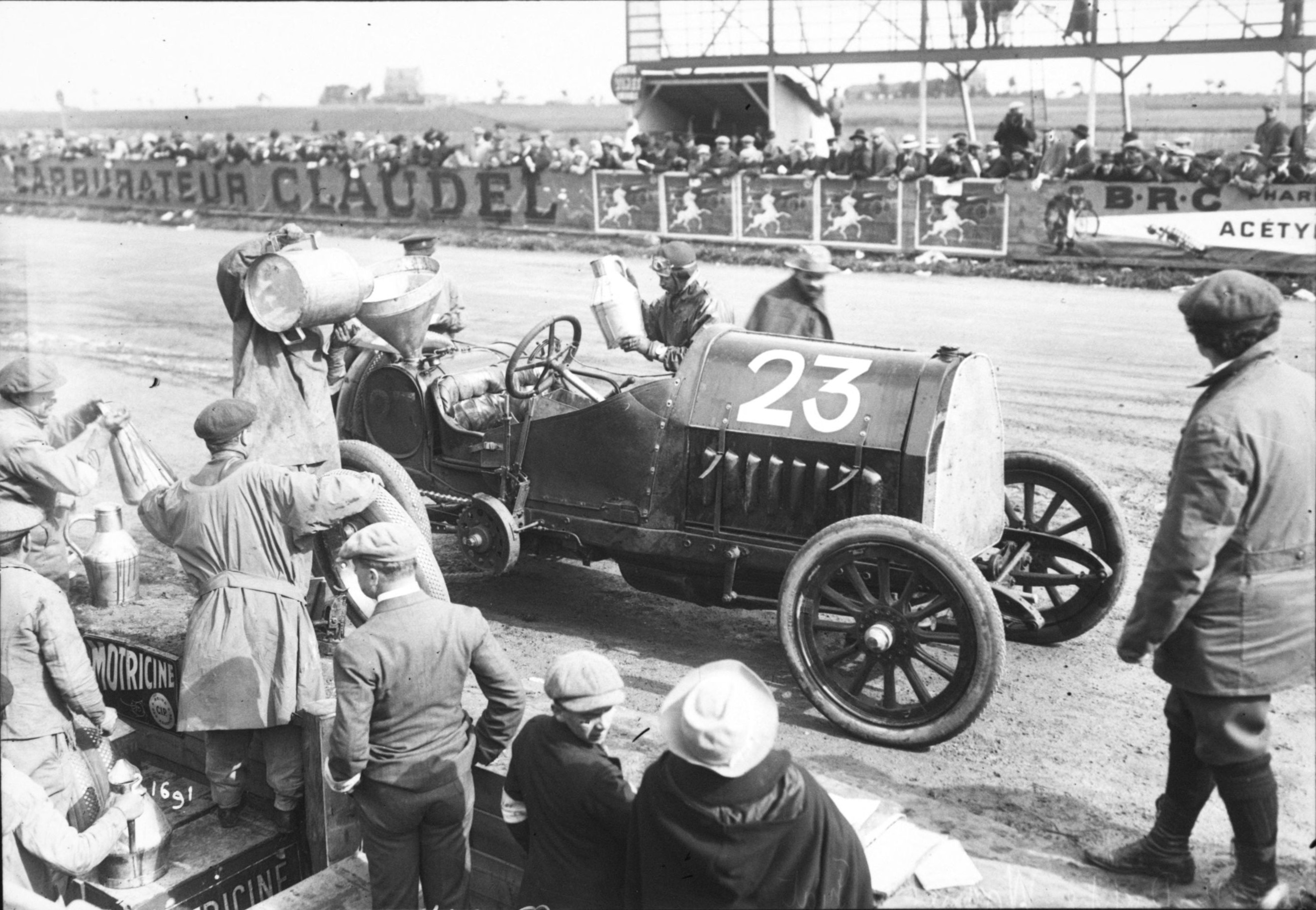 Louis Wagner in his Fiat at the 1912 French Grand Prix at Dieppe.